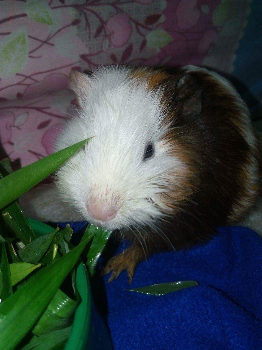 A young calico domestic guinea pig (Cavia porcellus) eating the leaves of a type of paspalum (grass), Paspalum conjugatum, in a container on a mat